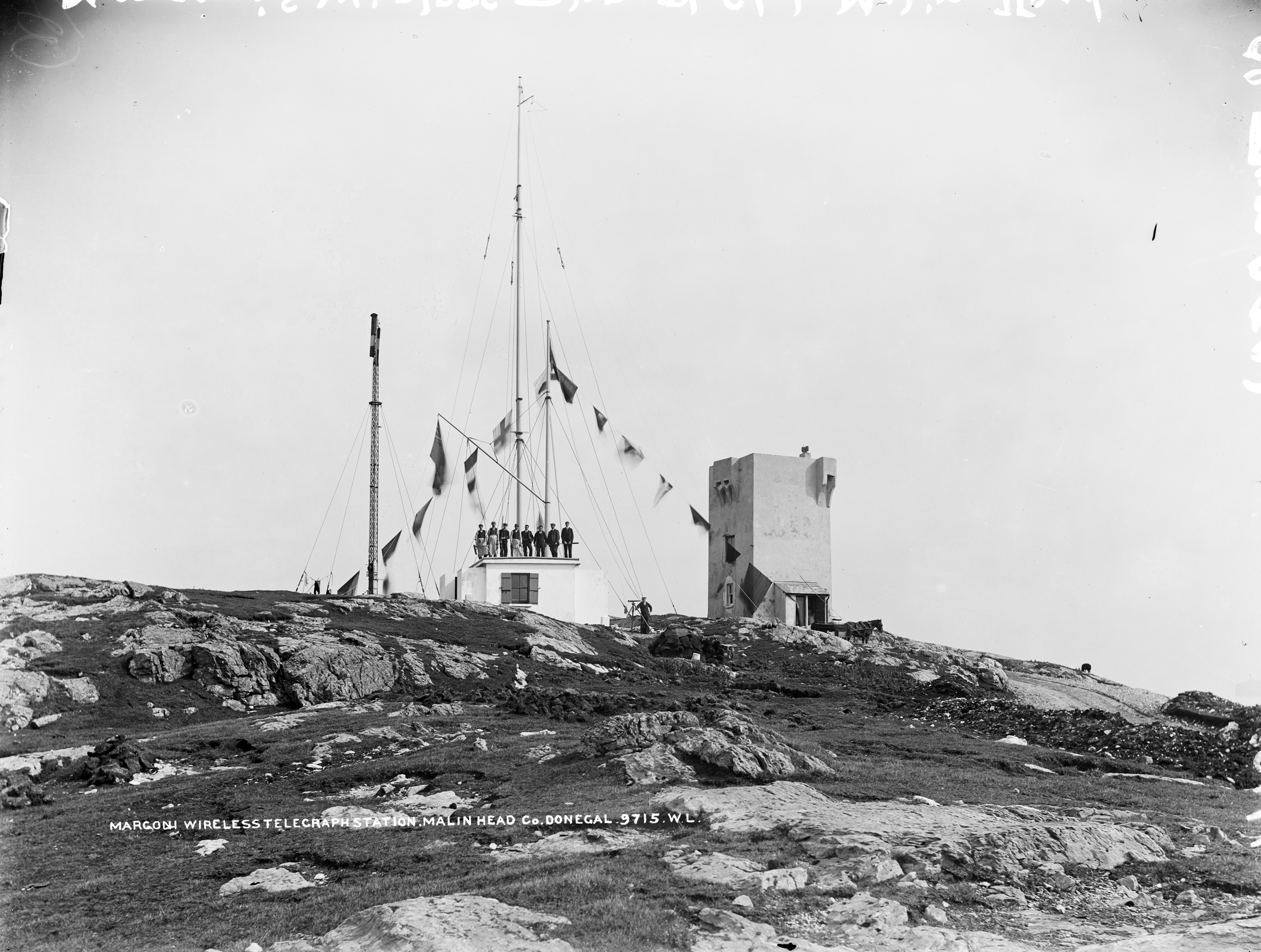 Could this photo have been taken to celebrate the opening of this Station? There're the flags, everything looks brand spanking new, and some of the men on the roof have tools... Is it too much to hope for, that an old library could finally get an almost exact date for one of our Lawrence photos?! No, apparently it's not! See all the brilliant comments below that led to a dating of January 1902... This photo was taken in January 1902, probably by Robert French, chief photographer of William Lawrence Photographic Studios of Dublin. You can compare this view of Malin Head with its companion photo taken approximately 88 years later as part of the Lawrence Photographic Project 1990/1991, where one thousand photographs from the Lawrence Collection in the National Library of Ireland were replicated a hundred years later by a team of volunteer photographers, thereby creating a record of the changing face of the selected locations all over Ireland. For further information on the Lawrence Photographic Project, read all about it on our NLI Blog. Date: January 1902 NLI Ref.: L_ROY_09715